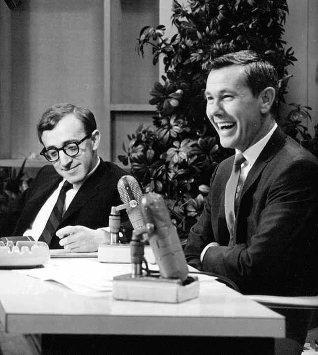 Photo of Johnny Carson and guest Woody Allen from The Tonight Show.